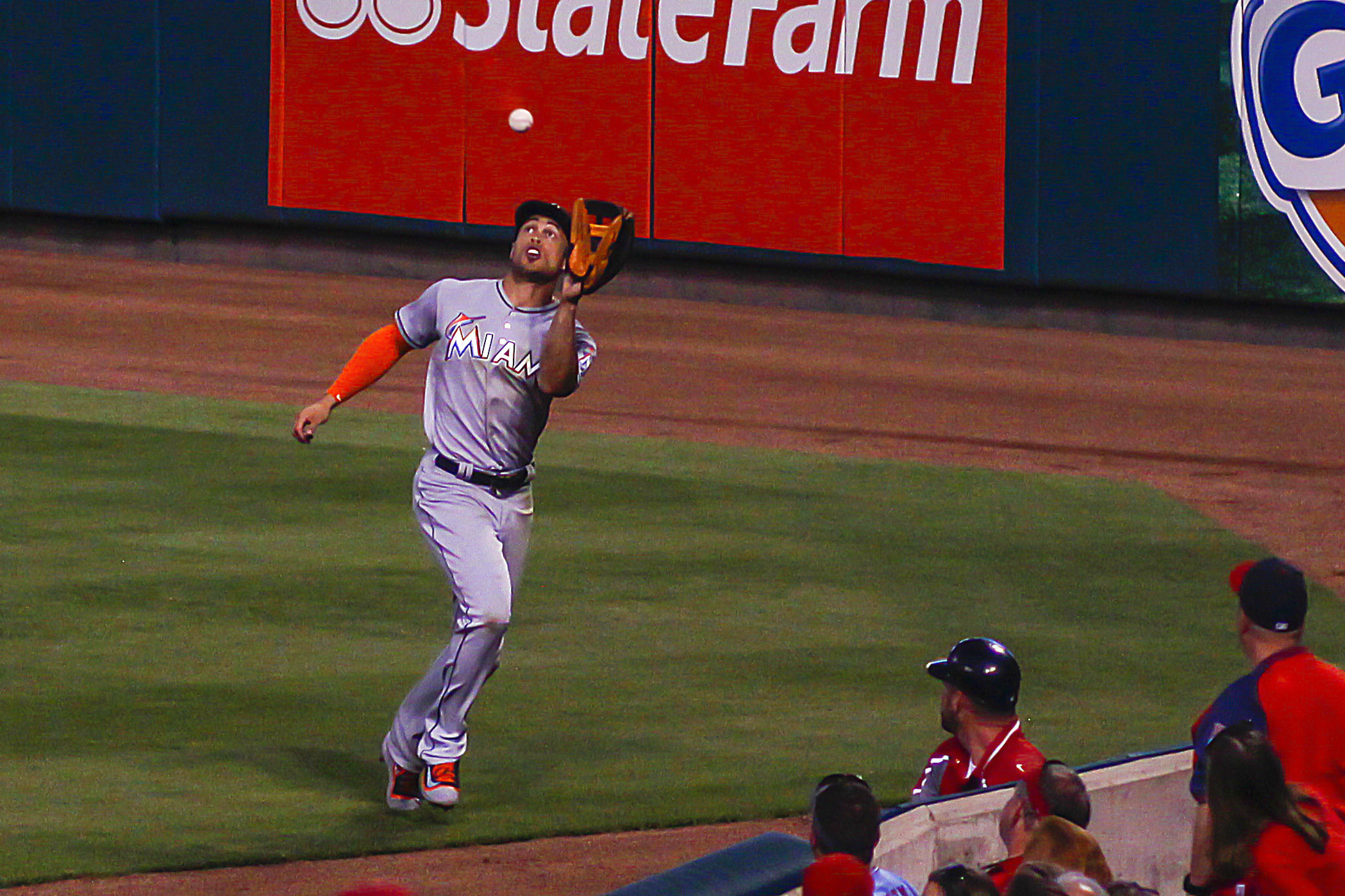 Giancarlo Stanton makes a catch in St. Louis, 2016.